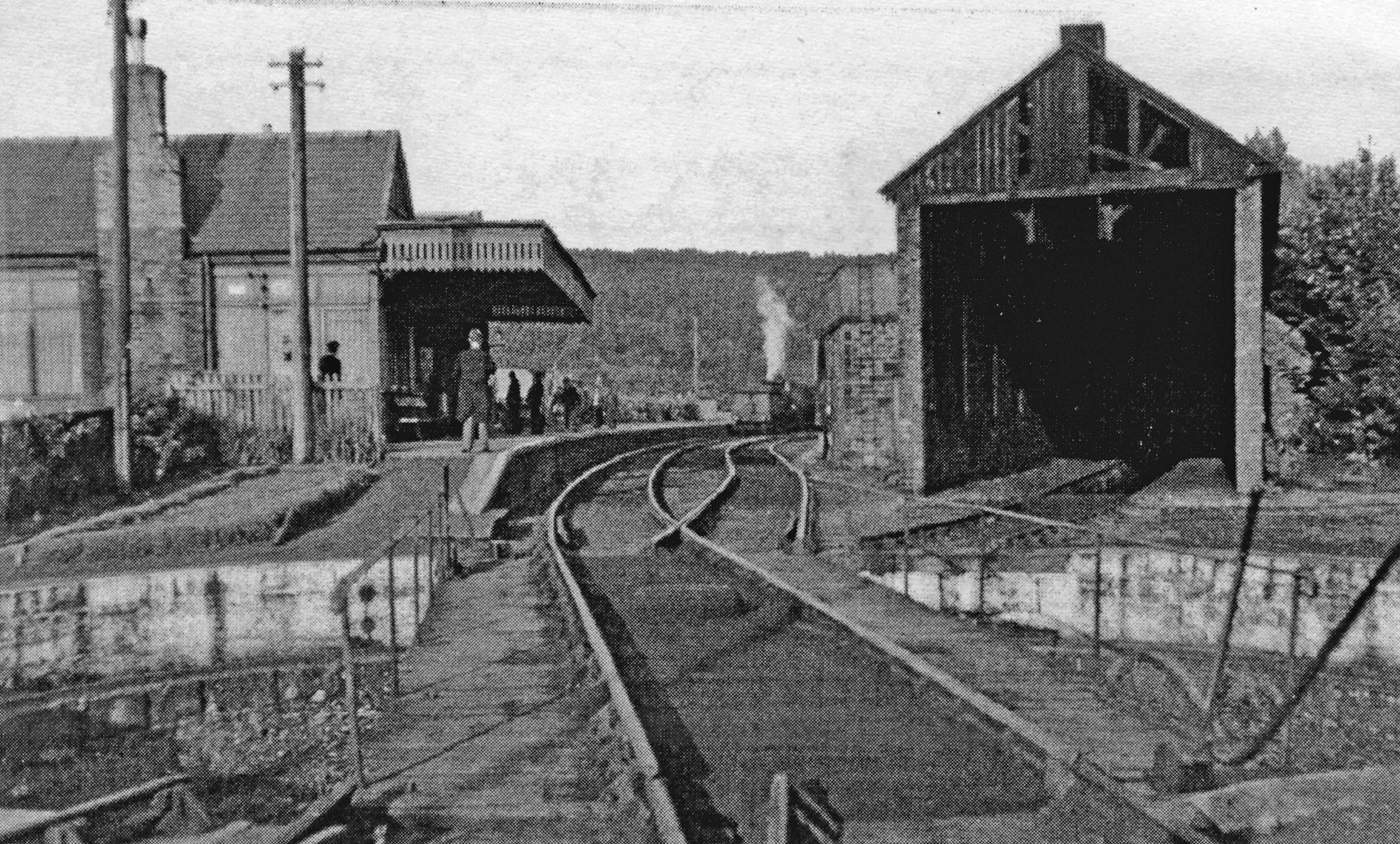 Rothbury station, 1953View east, towards Scotsgap and Morpeth. This was the terminus of the branch from Scotsgap off the ex-NBR Morpeth - Reedsmouth branch. It was already closed (15/9/52) to passengers but remained open for goods until 11/11/63; the approaching train is a Rail Tour.